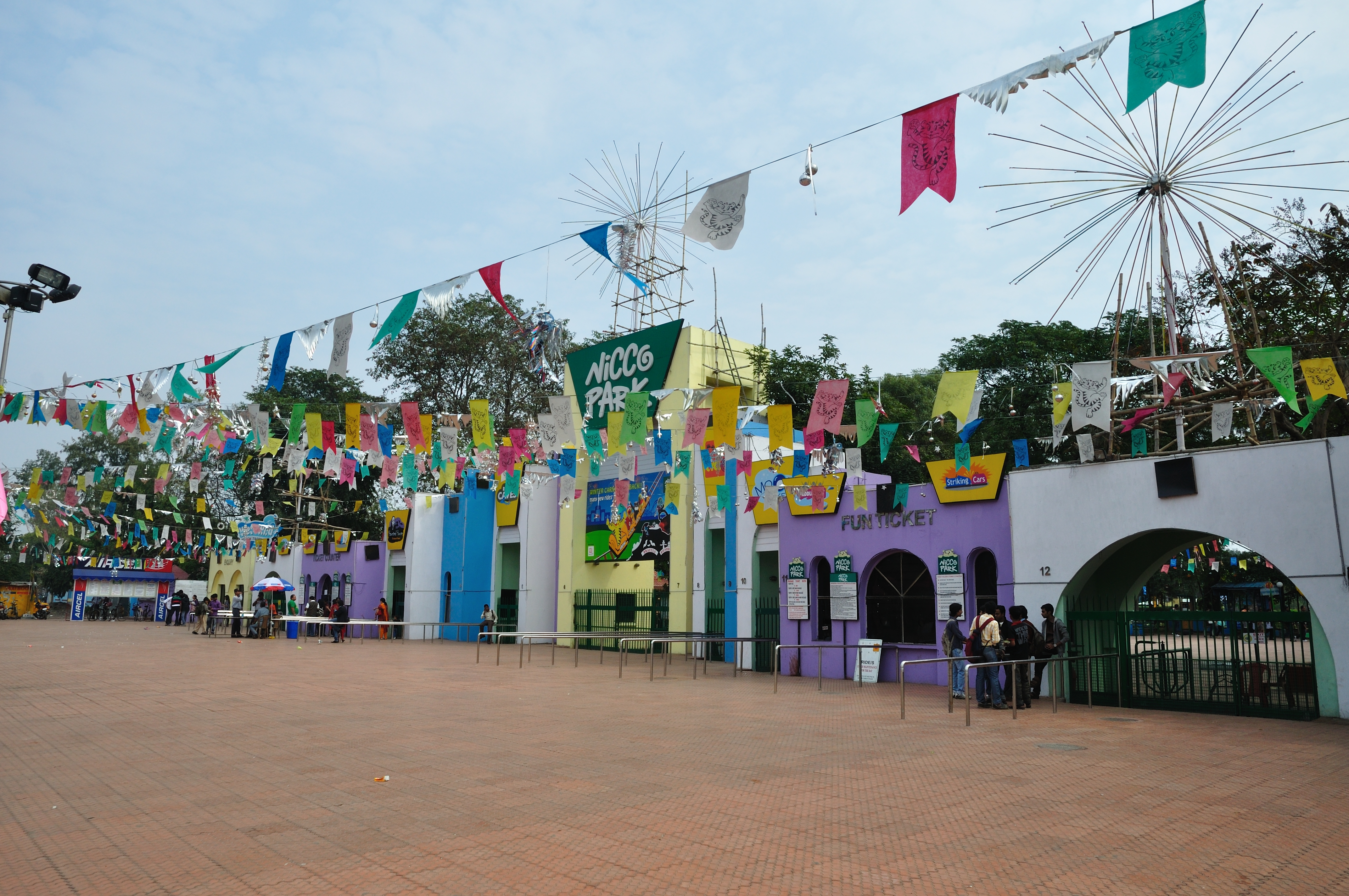 Nicco Park at Jheel Meel, Set up in Salt Lake or Bidhan Nagar, on the north-eastern fringe of Kolkata (Calcutta), this amusement park covers an area of 40 acres.